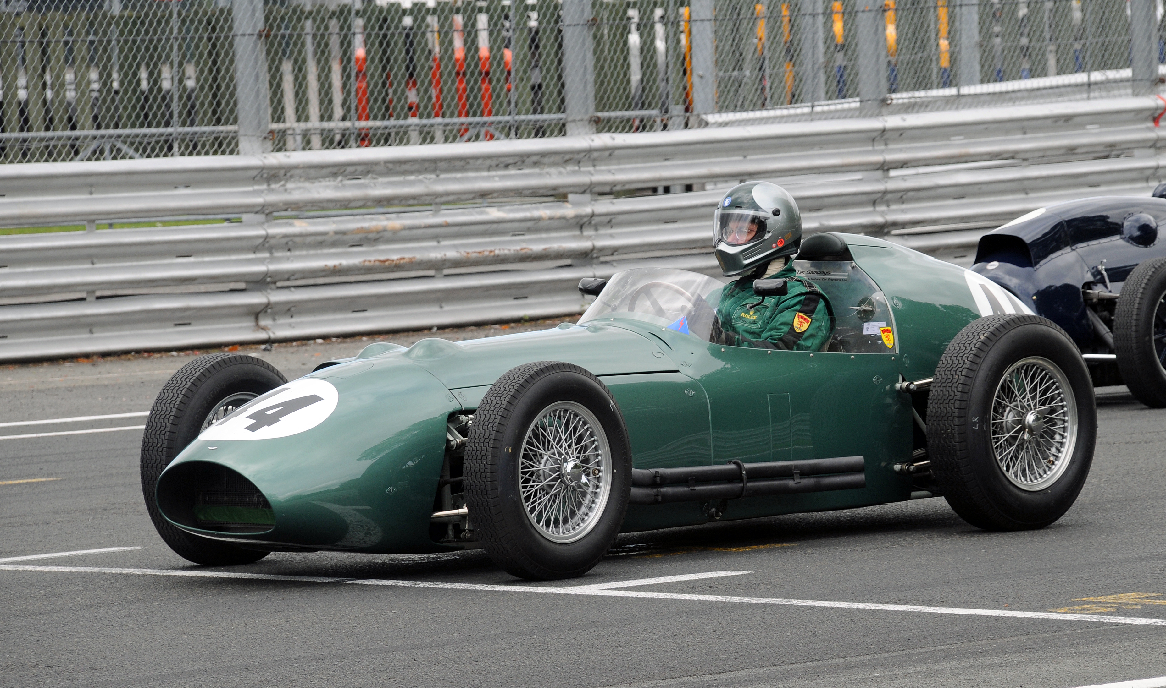 1957 Aston Martin DBR4